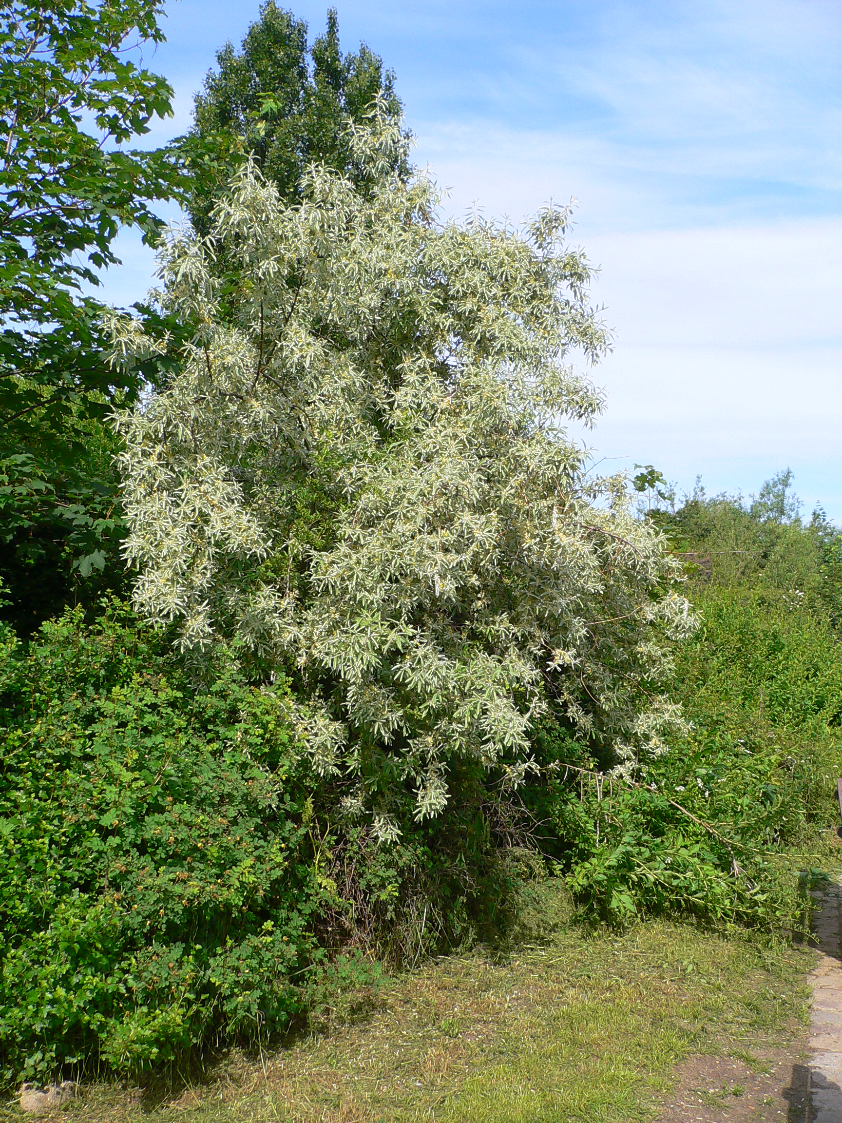 Oleaster Elaeagnus angustifolia about 5 m high, Görlitzer Park, Berlin-Kreuzberg, Germany.